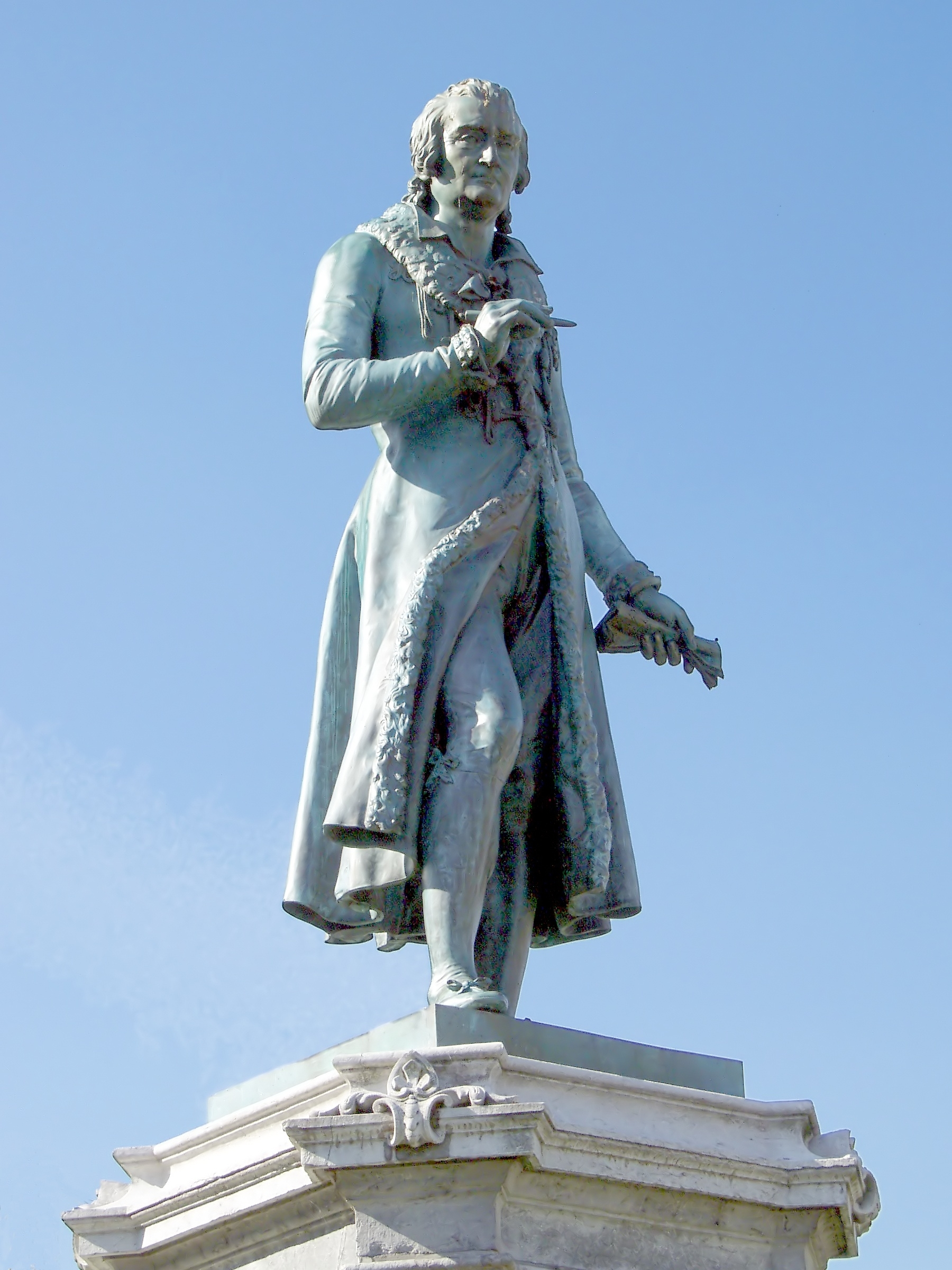 Statue of André Grétry